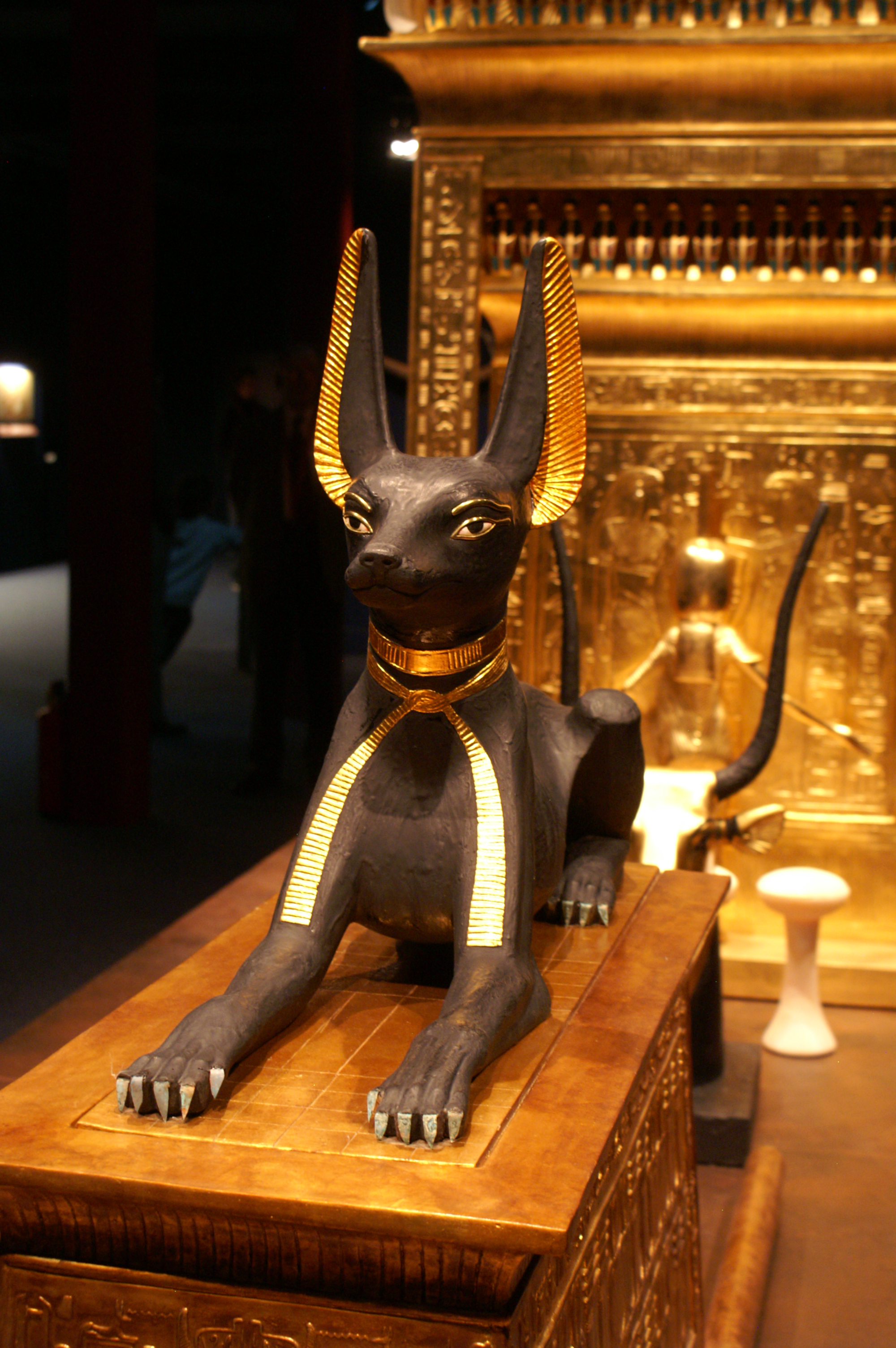 Portable shrine with anubis figure from the grave of tutenchamun, replica